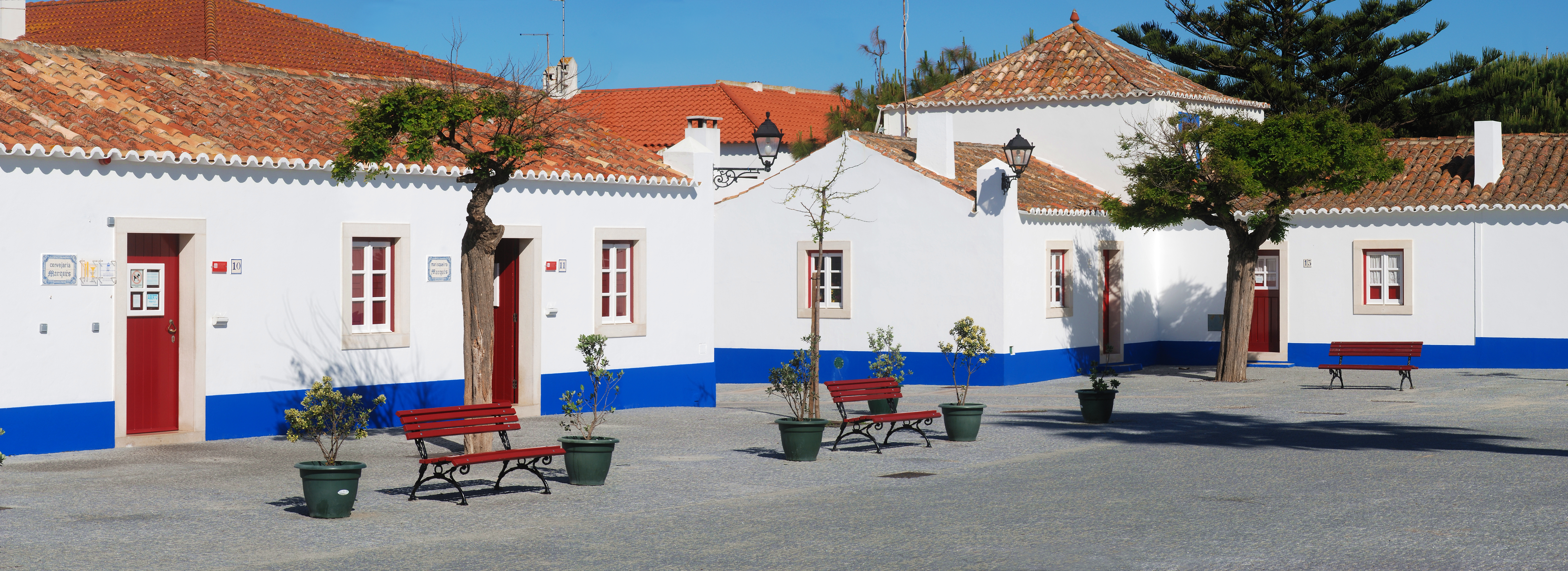 The main square of the village of Porto Covo (detail), west coast of Portugal